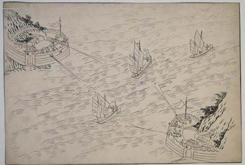 Facsimile of original Chinese drawings found in the House of Kwan, the commander-in-chief of the Anunghoy batteries, Bocca Tigris, China, after their capture by the English on 26 February 1841. The pictures represent the expected attack by the English.